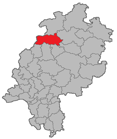 Map of the district court Frankenberg (Eder) in Hesse